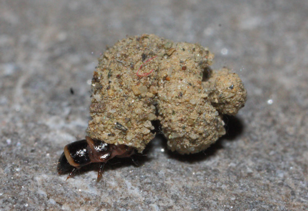 Larvae of Apterona helicoidella, Vienna, Austria